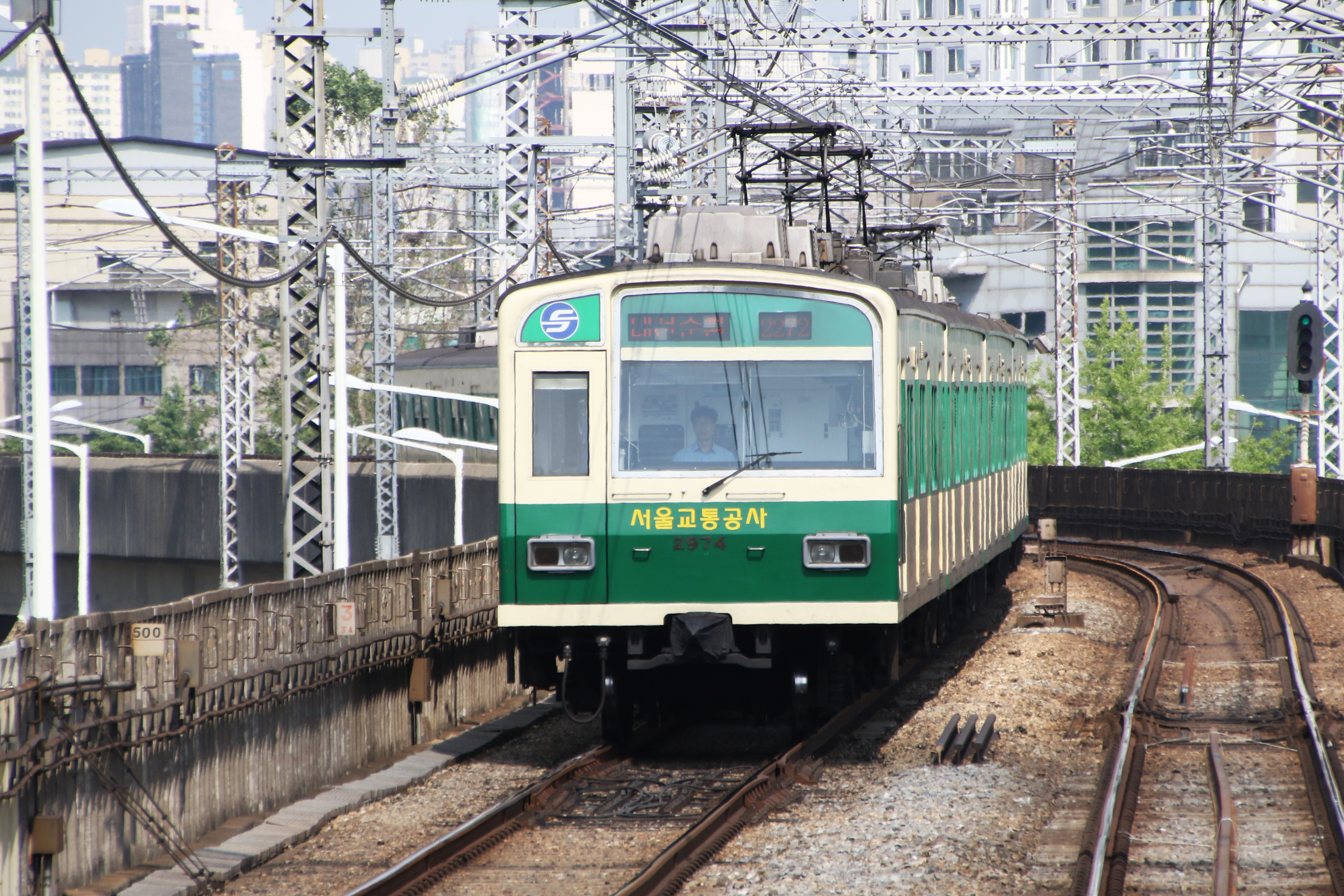 Seoul Metro Line 2 train of 2000-series cars (1st generation, 1st batch, rebuilt) arriving at Guro Digital Complex.